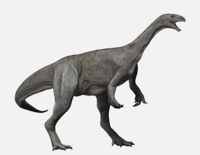 Life restoration of Asylosaurus yalensis (Galton, 2007)